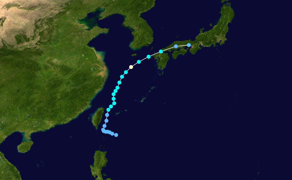 Typhoon Irma Pacific 1978 track. Uses the color scheme from the Saffir-Simpson Hurricane Scale.